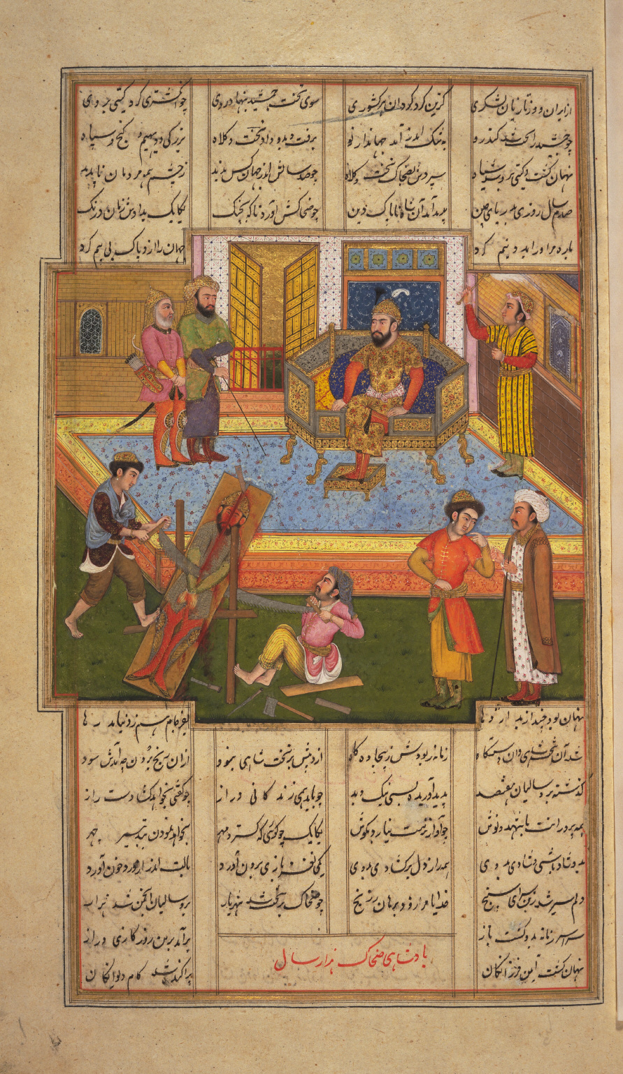 Illumination from a manuscript of the Shahnameh epic